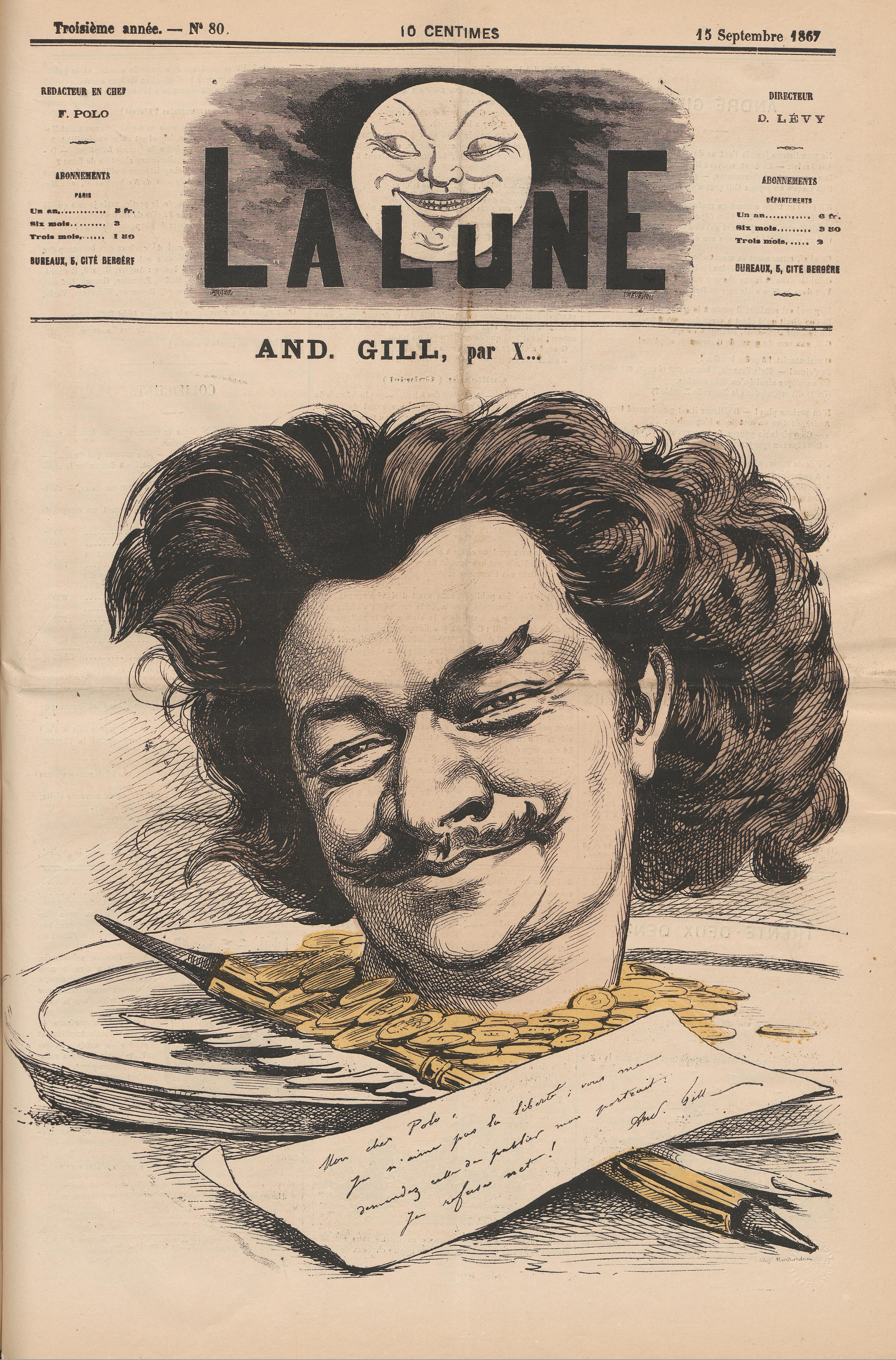 Self-Caricature of André Gill Cover of La Lune 15 September 1867 Hand-colored Engraving 12"w x 18"h